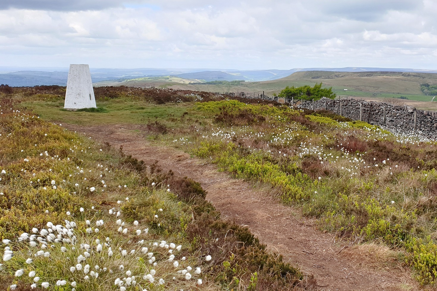 Burbage Edge summit looking north toward Combs Moss, near Buxton in Derbyshire